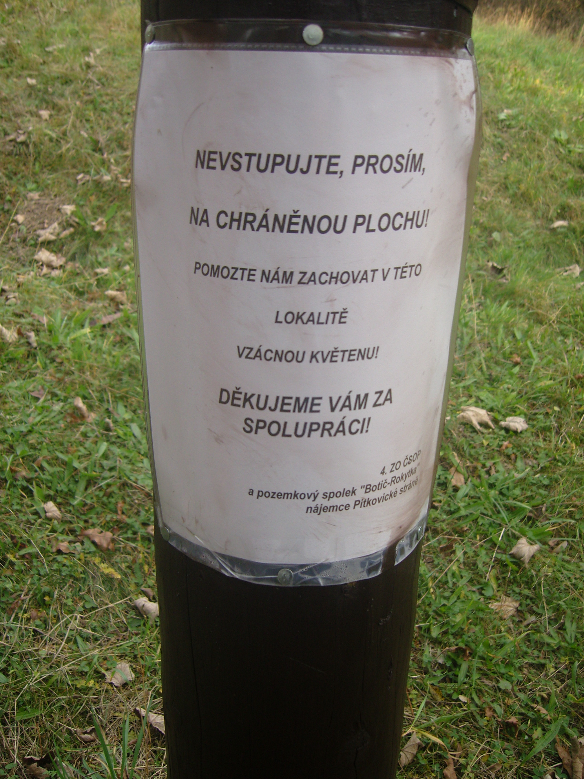 Natural protected site called Pitkovická stráň, near Prague